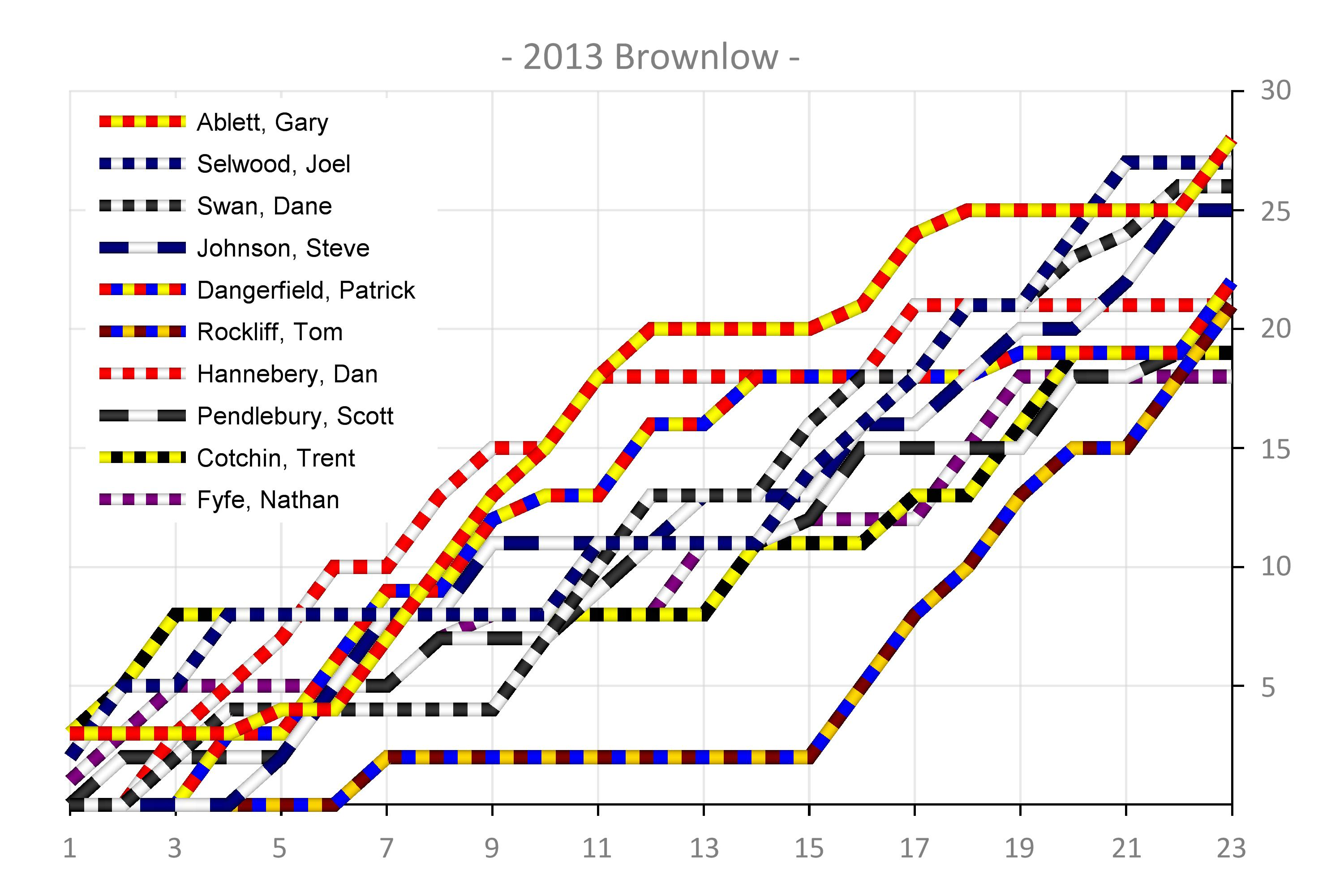 A cumulative graph of Brownlow votes